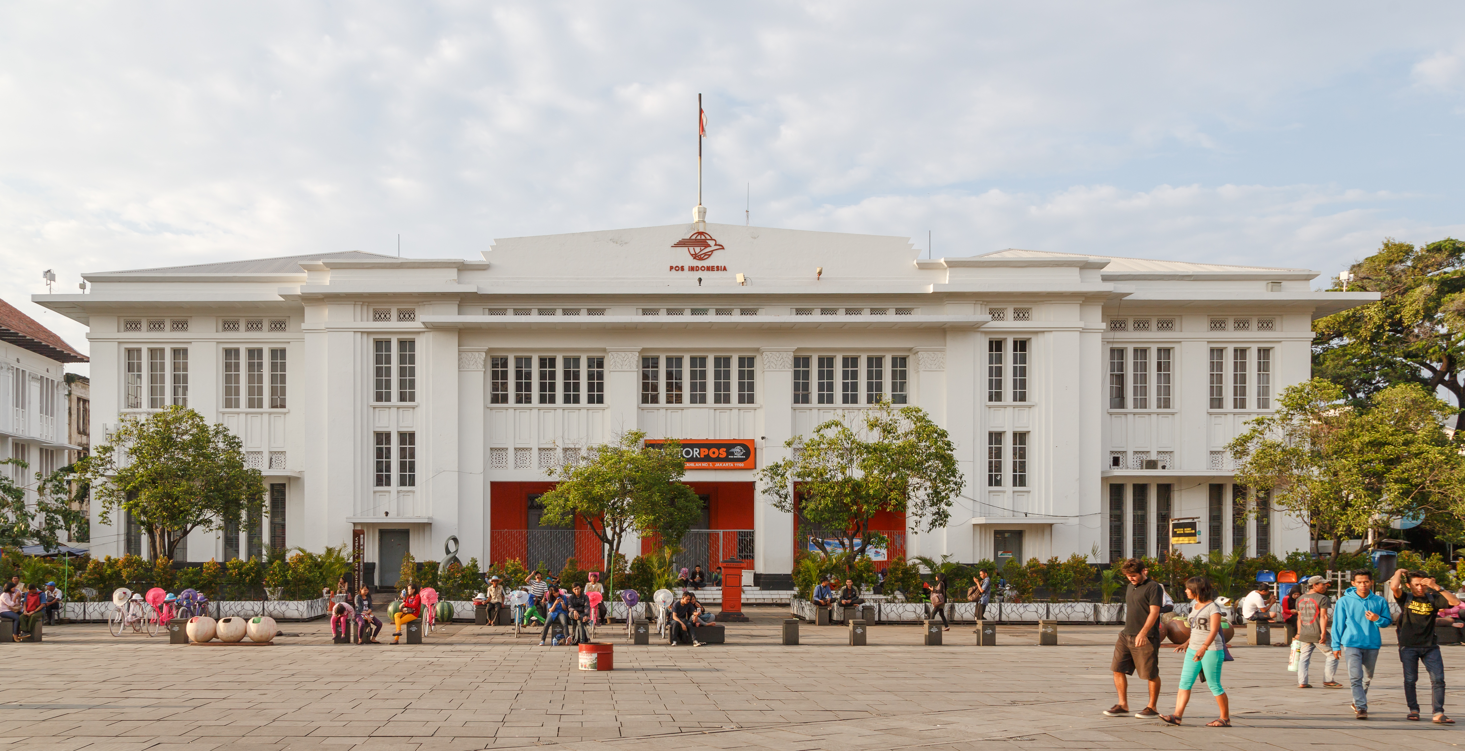 Jakarta, Indonesia: Jakarta Old City Post Office at Fatahillah Square.